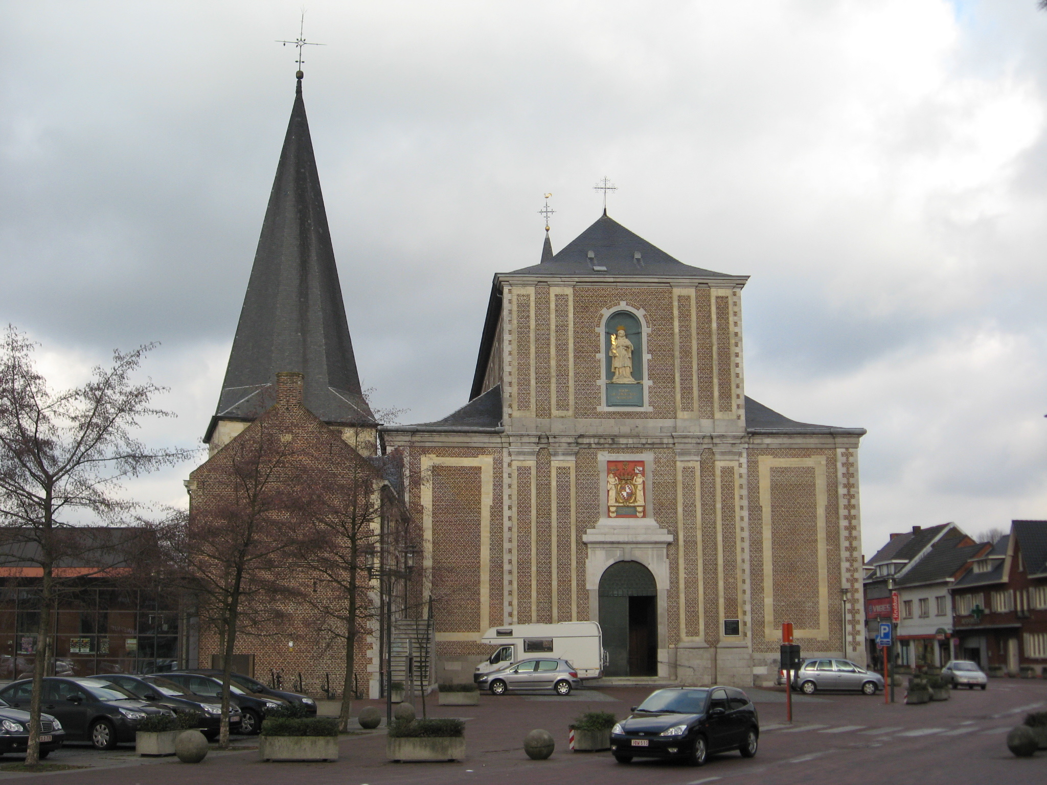 Church of Saint Quentin in Zonhoven, Limburg, Belgium.